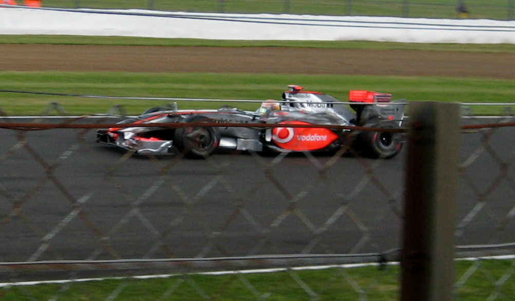 Lewis Hamilton at the 2009 British Grand Prix, Silverstone, UK.